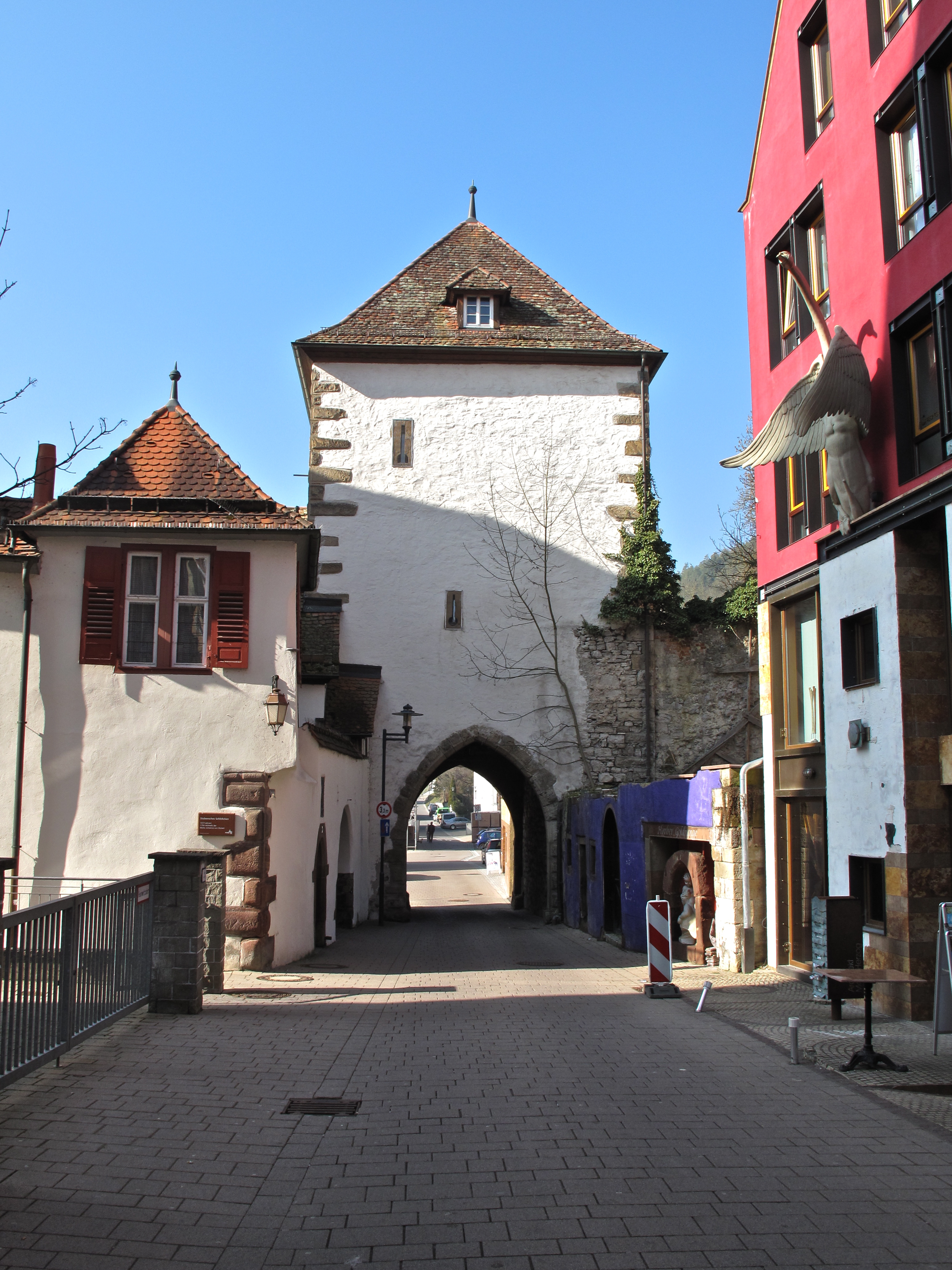 The Luziferturm is a medieval tower in Horb am Neckar.